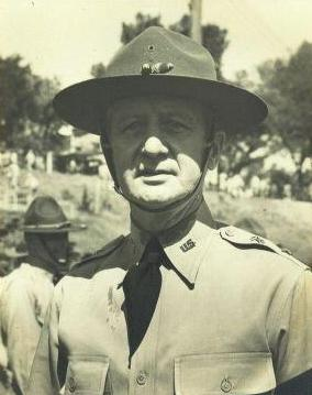 General Ford, probably as commander of Second U.S. Army in 1940